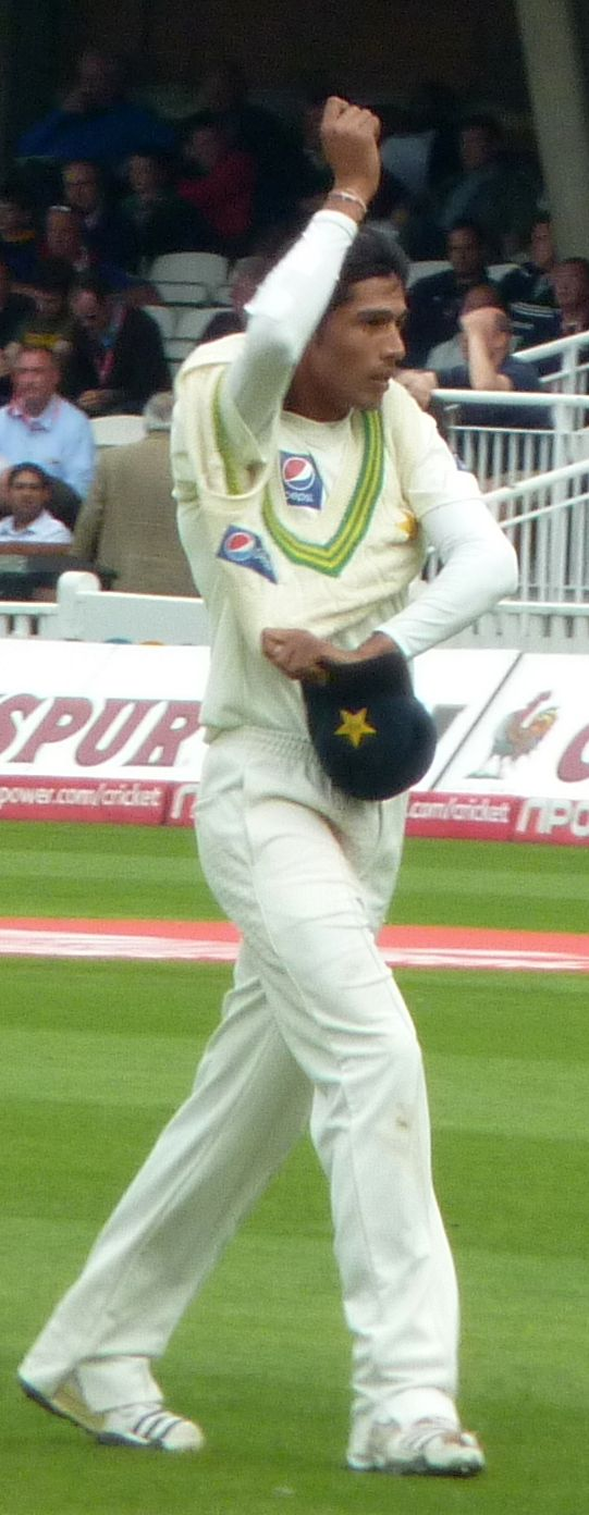 Mohammad Amir pulling on his jumper in the outfield. Taken during Pakistan's third Test against England in August 2010.